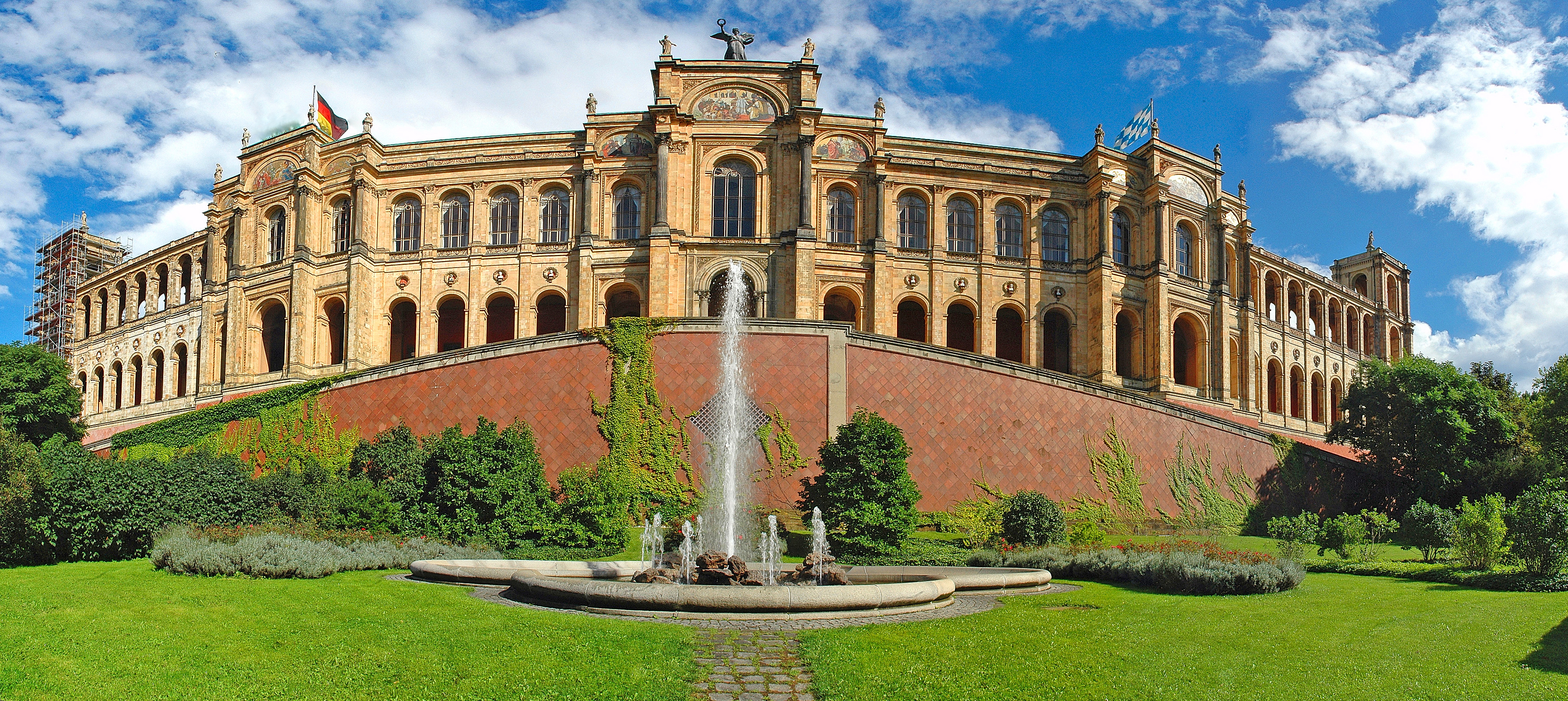 Maximilianeum, Bavarian Parliament, Munich, Panorama, Western facade